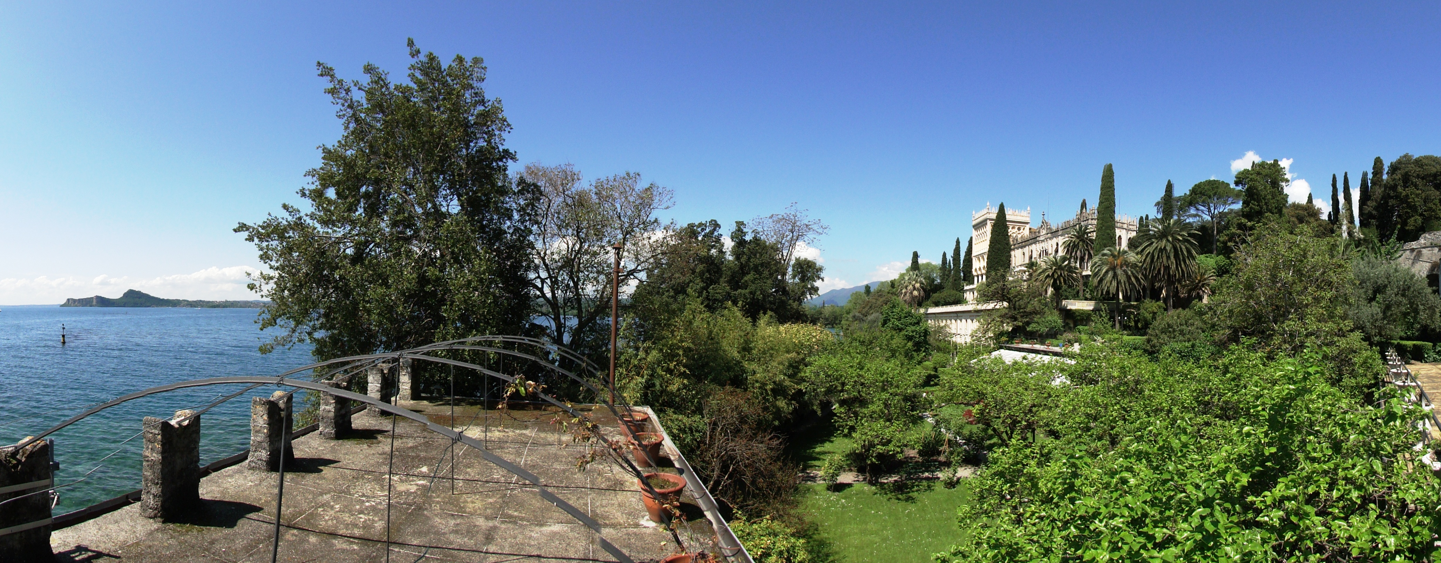 Villa Borghese-Cavazza on the Isola del Garda, Lake Grada, Italy, viewed from the gardens